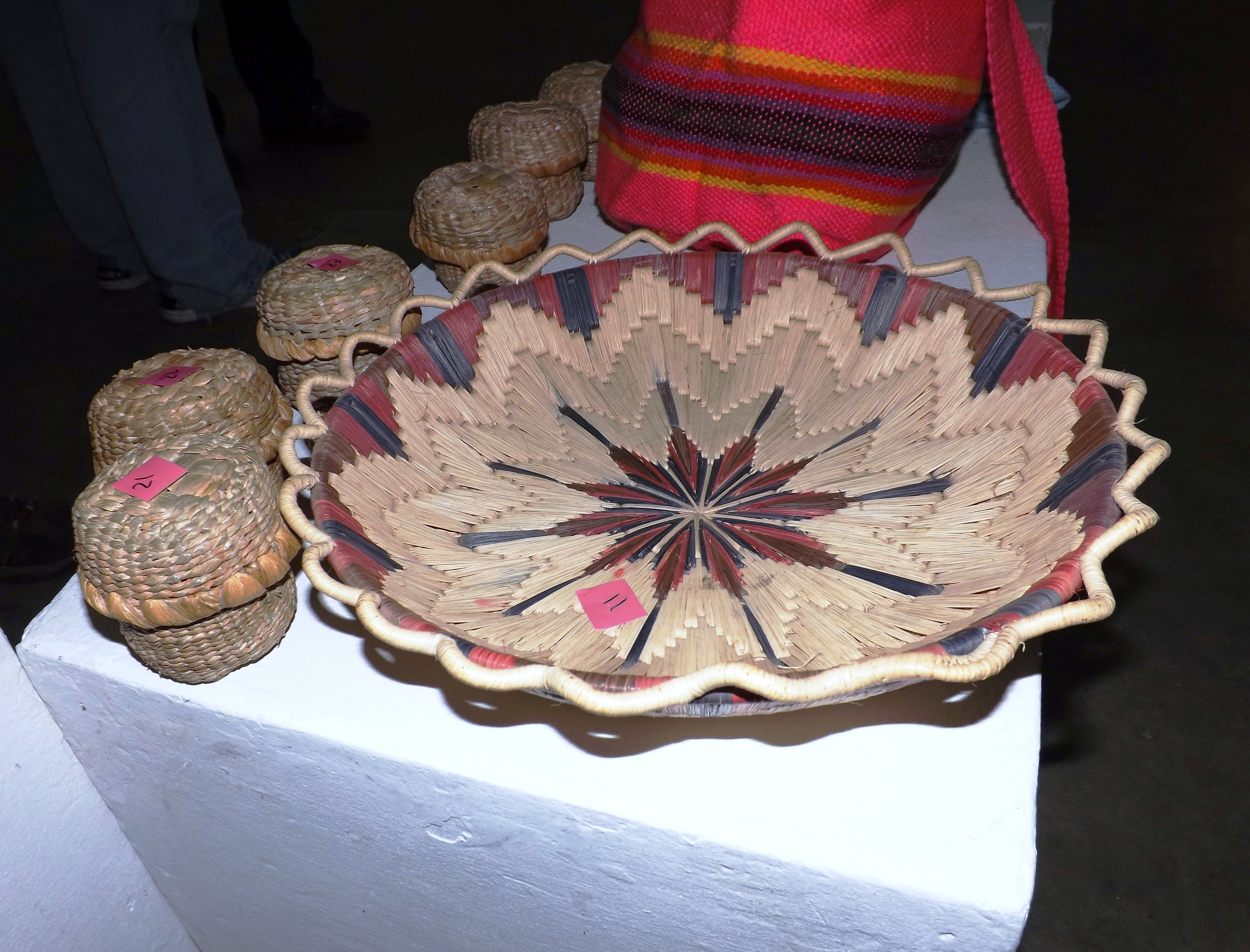 Añú baskets made with leaves of corn dog grass